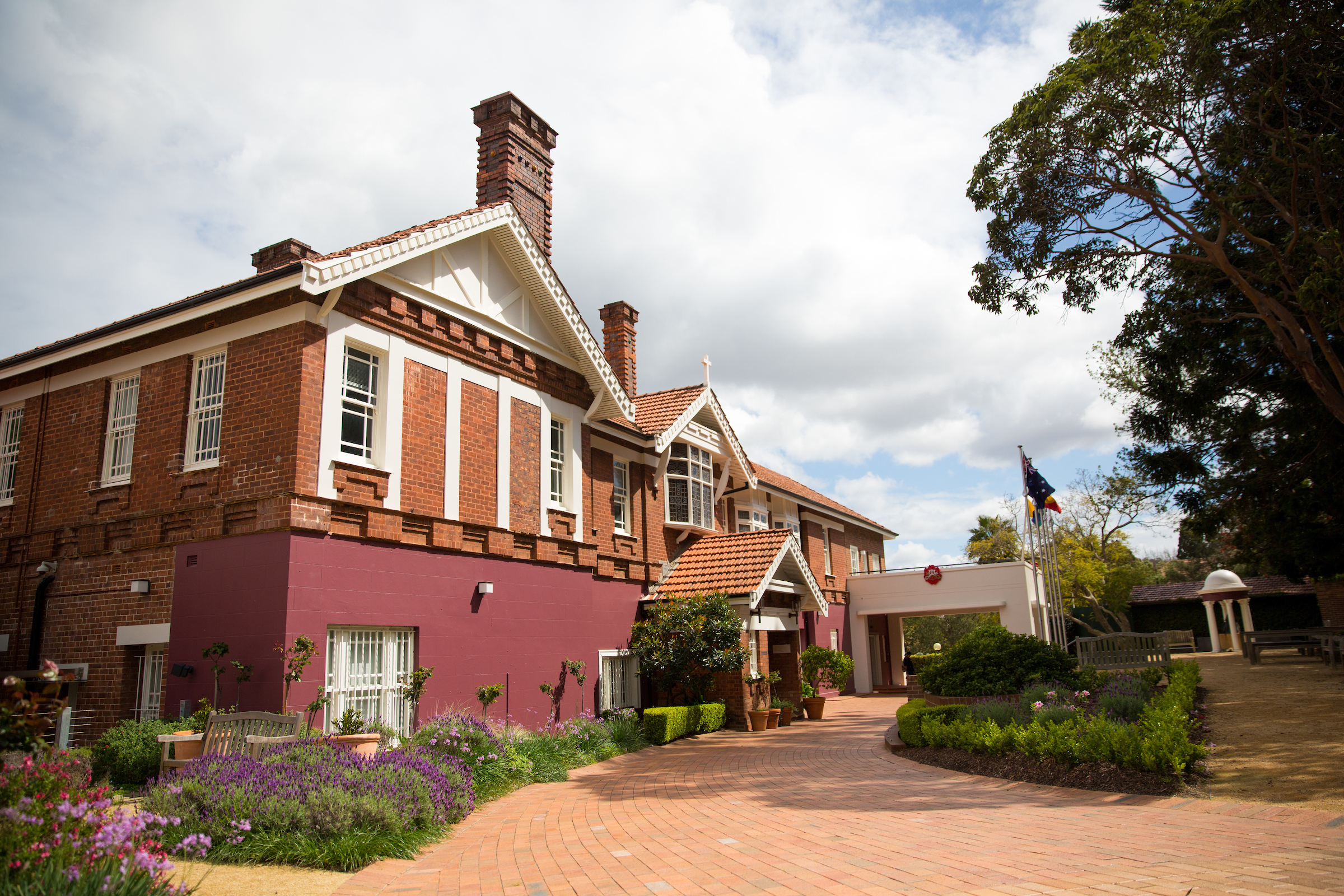 ACU campus in North Sydney, NSW